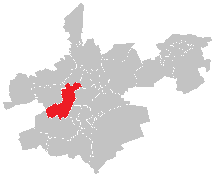 Location map of Olomouc district Nová Ulice